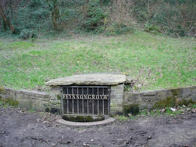 Ffynnongroyw. The village of Ffynnongrowyw name translates from the name from the 'clear well' pictured.